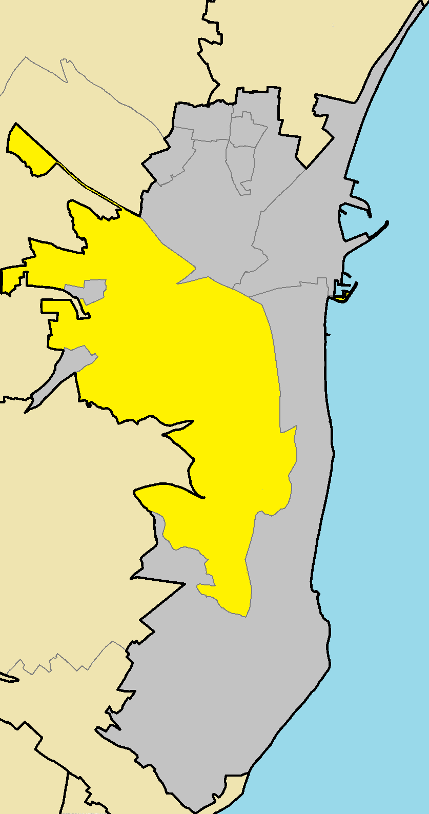 Agios Nikolaos in Larnaca Municipality.